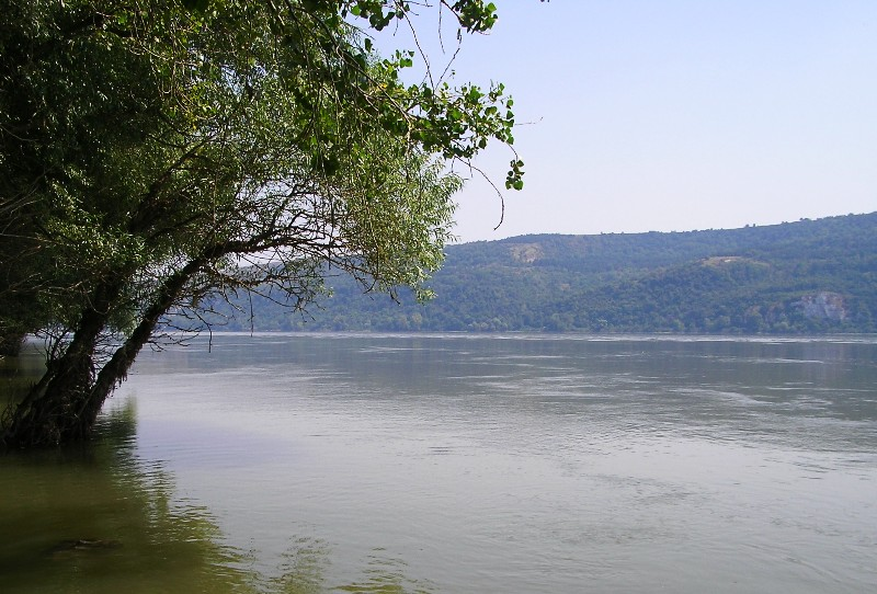 Danube in Turnu Măgurele.